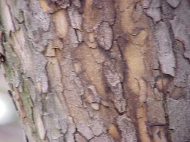 Species: Cornus mas Family: Cornaceae Image No. 6